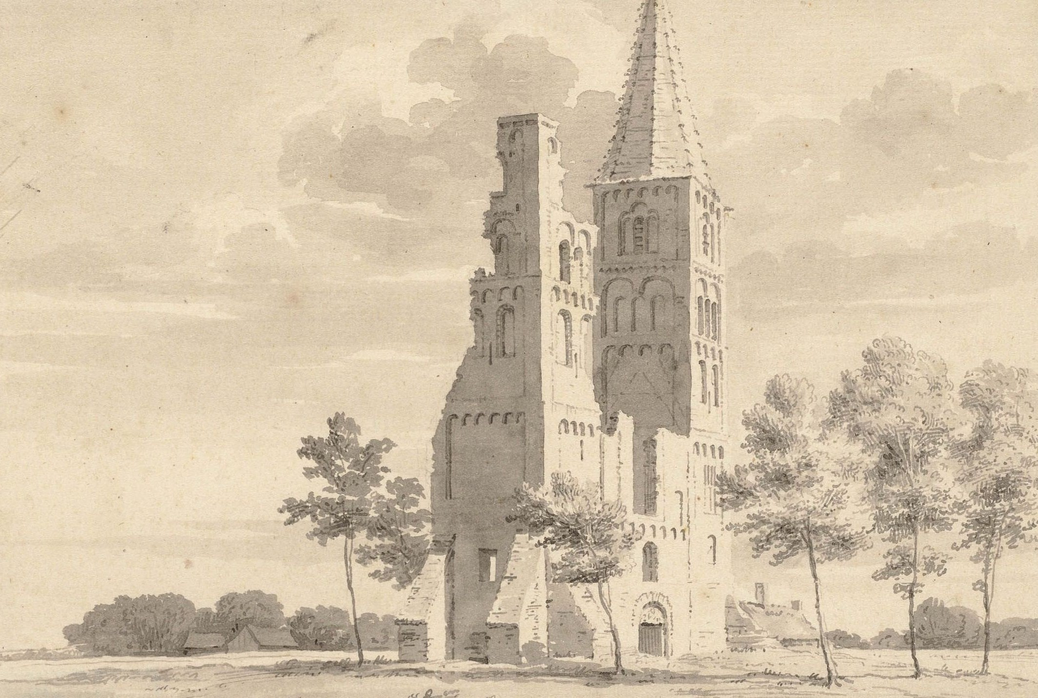 Ruins of the two tower front of the Egmond Abbey